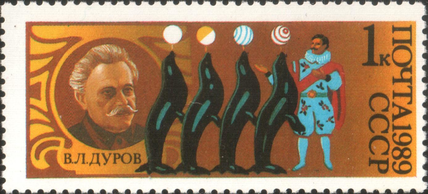 A USSR stamp